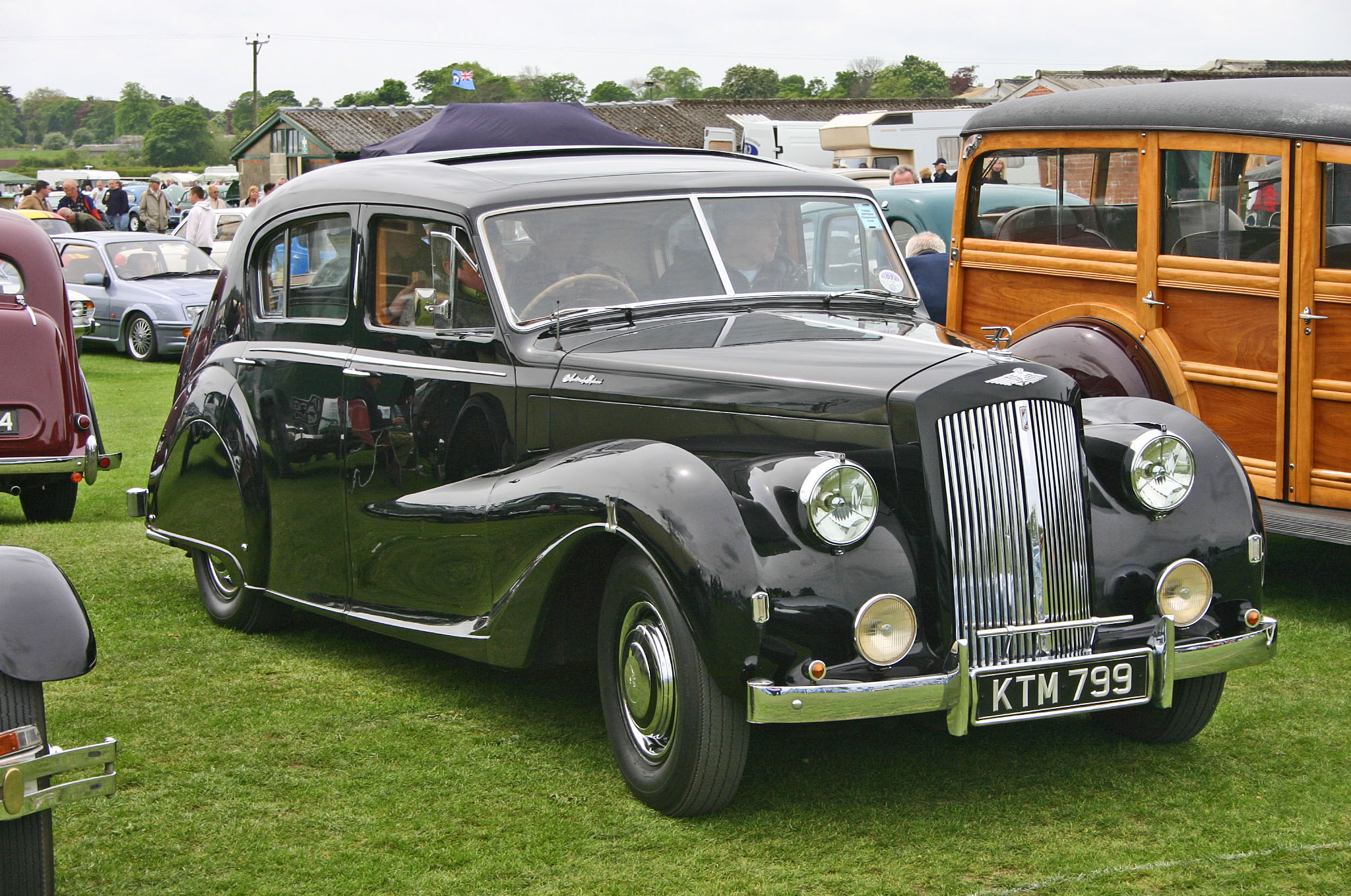 Austin A135 Princess MkII DS3. Built by Vanden-Plas who had been bought out by Austin in 1946. This was a coachbuilt version of the Austin A125 Sheerline with 3993cc engine.